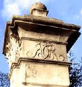 One of a pair of gate-piers to Wanstead House, built 1715-1722, showing monogram of Sir Richard Child "RC" and "RC" entwined in mirror image.